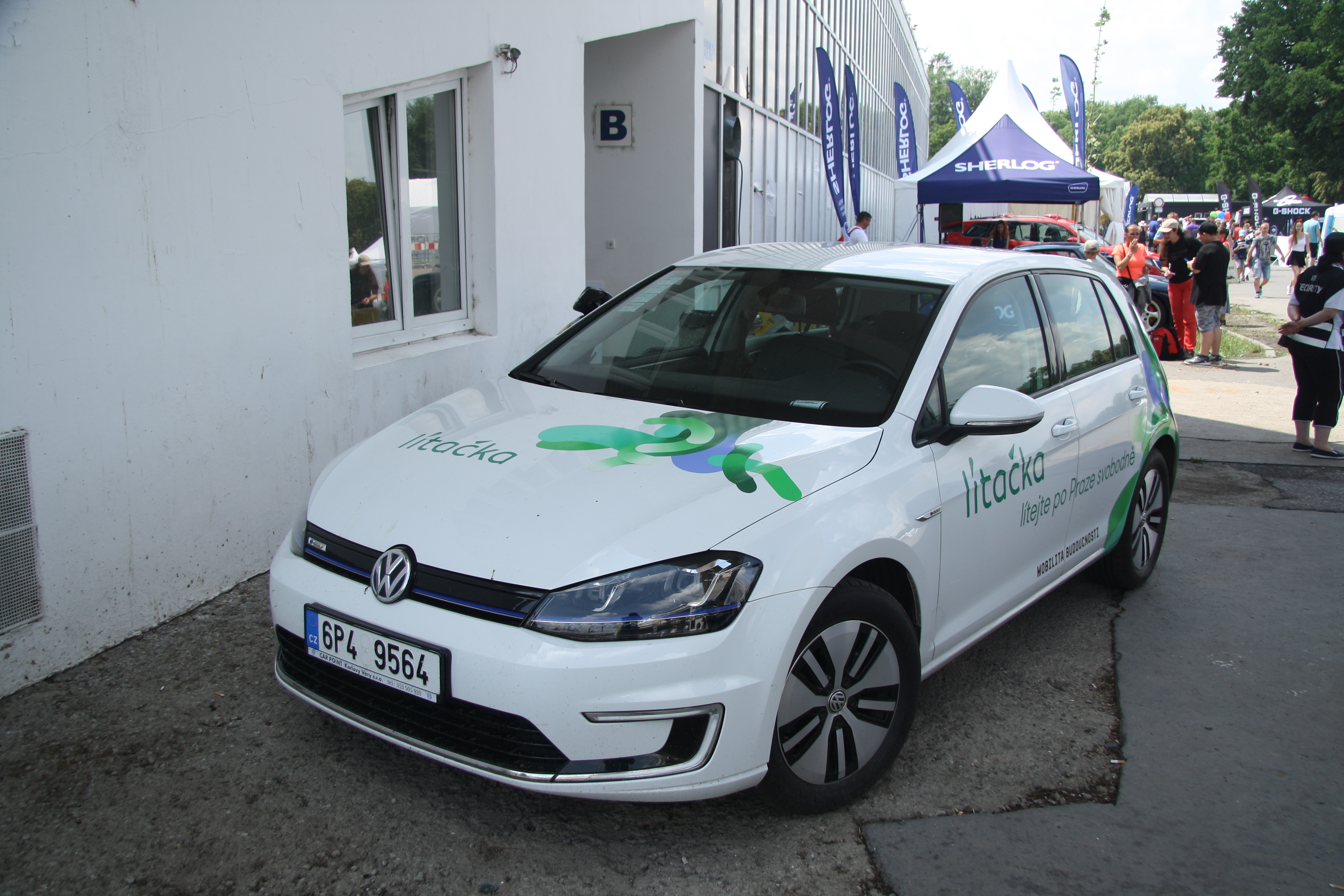 Volkswagen E-Golf - Lítačka at Legendy 2018 in Prague.